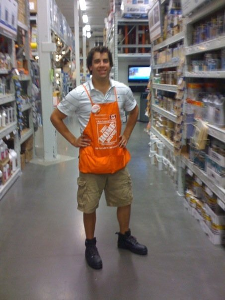 Kevin Richardson, son of Terry Richardson, poses for a photo inside his place of work -- Home Depot.